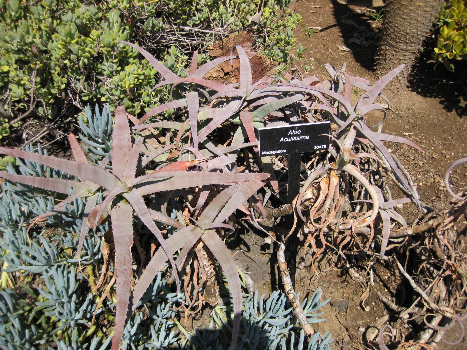 Photographed at Huntington Gardens (Los Angeles) in March